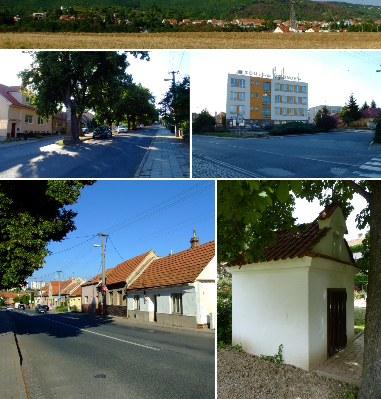 Brno-Bosonohy - Pražská street